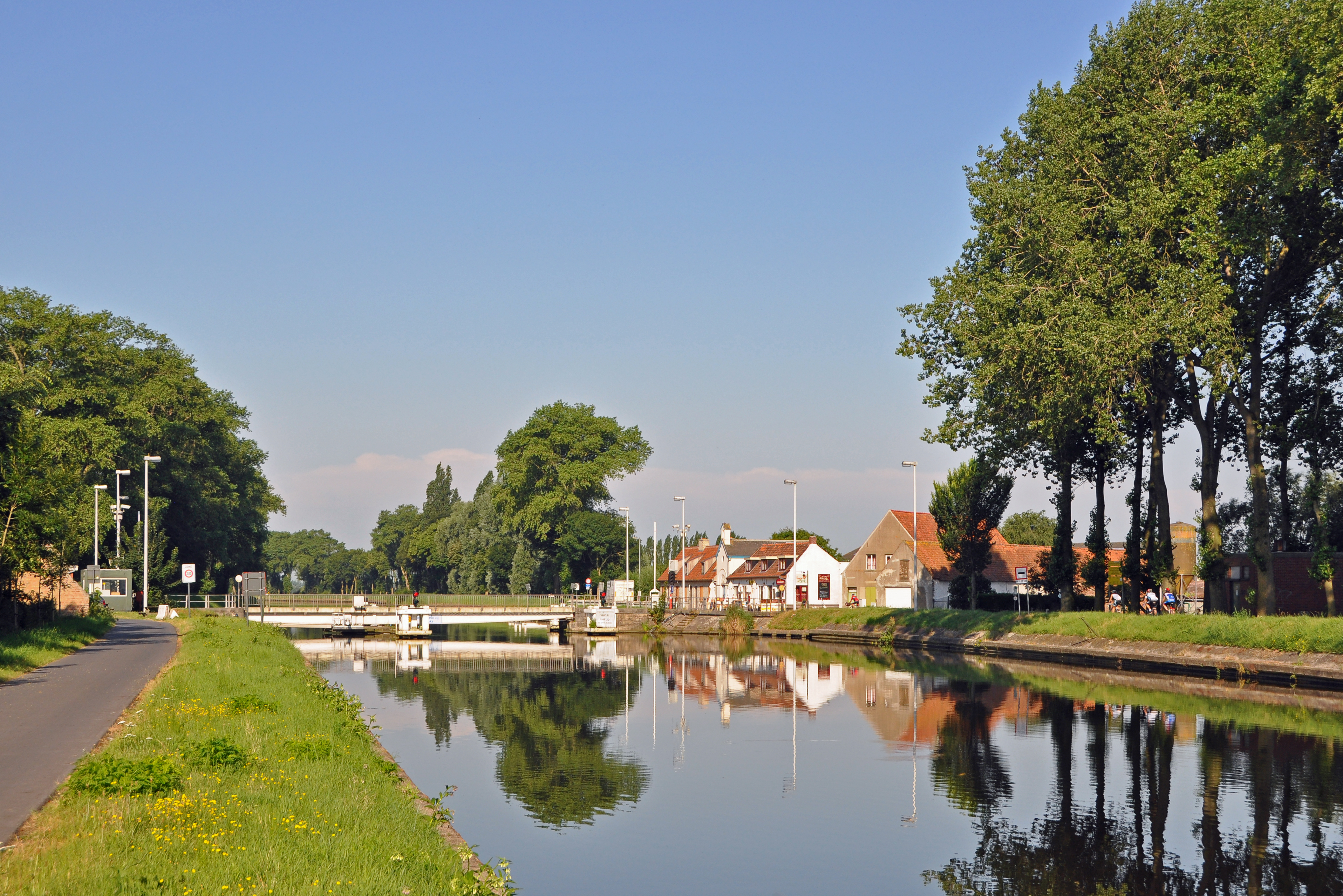 Varsenare (Jabbeke municipality, Belgium): the bridge of Nieuwege on the Ostend-Bruges canal